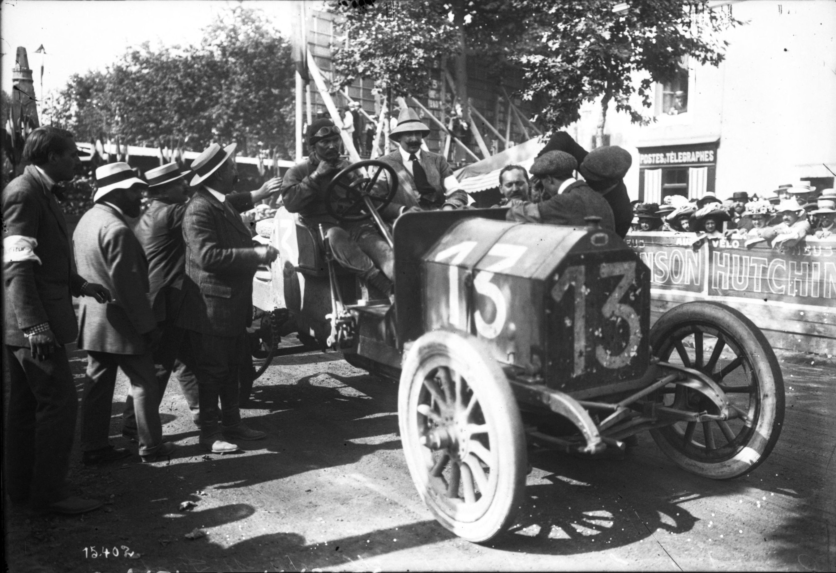 Victor Hémery at the 1911 Grand Prix de France at Le Mans.